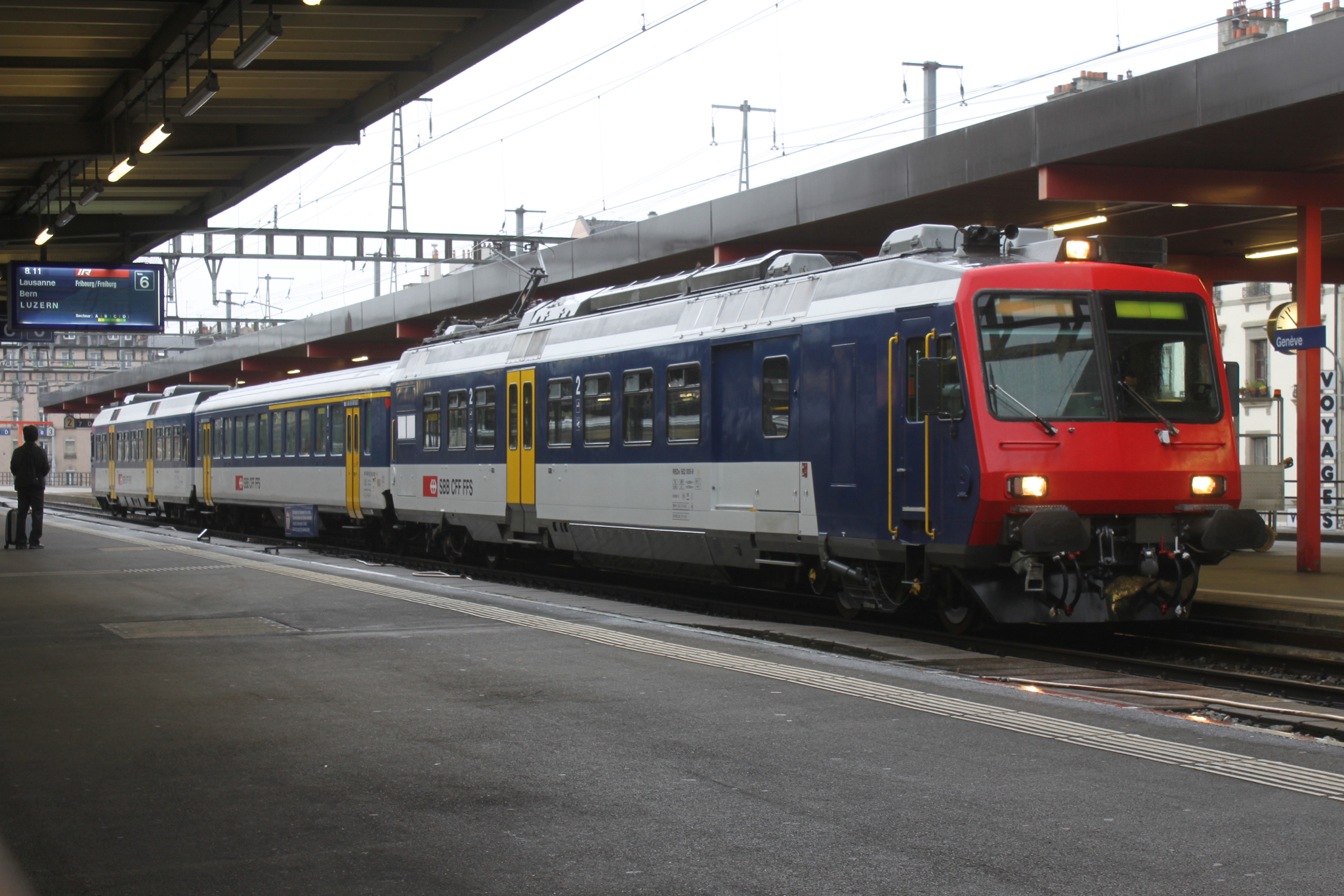 Dual-voltage SBB CFF FFS RBDe 562 005-9 at Genève Cornavin station.